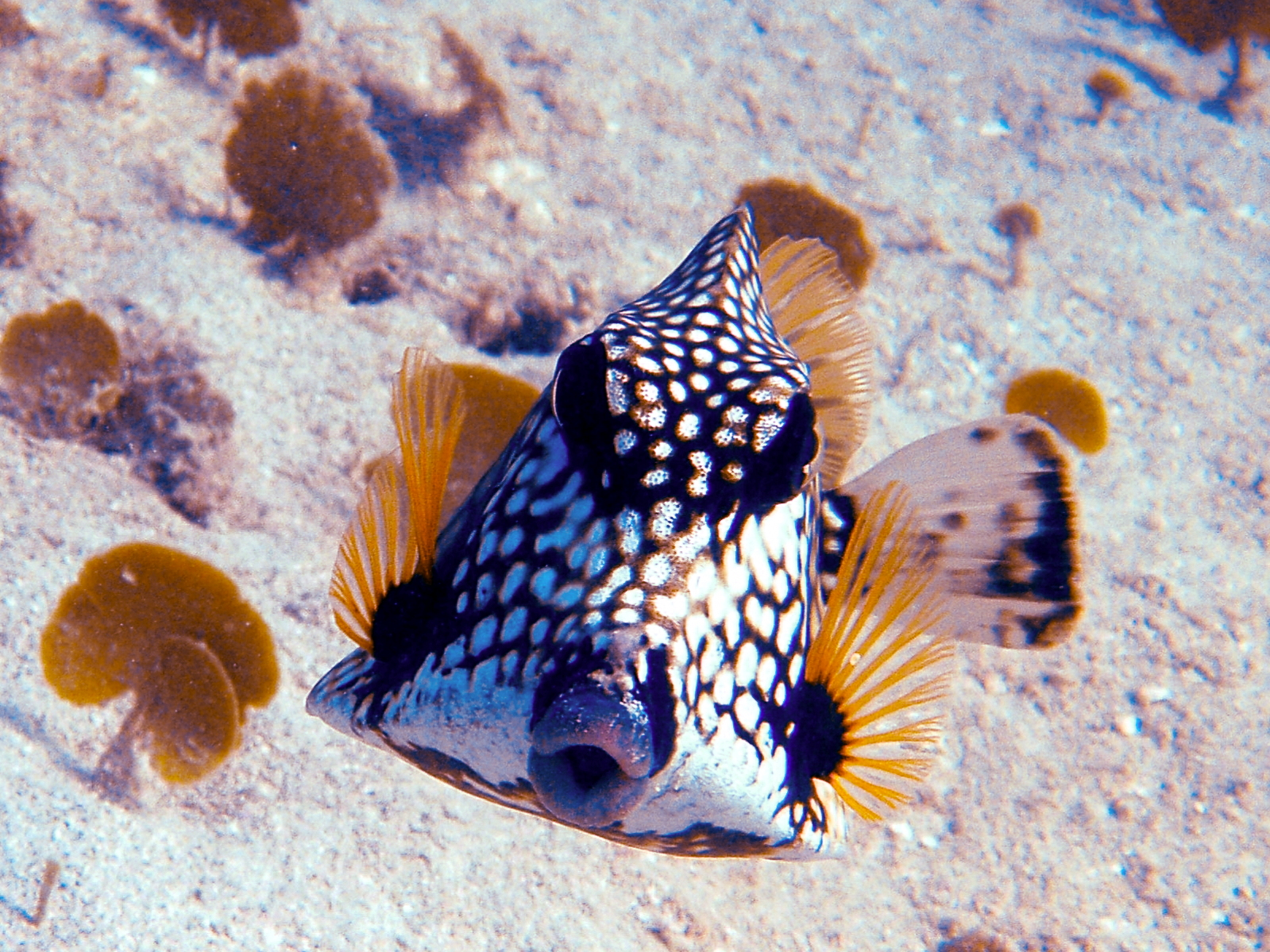 Smooth trunkfish (Rhinesomus triqueter) Image ID: reef1091, NOAA's Coral Kingdom Collection Location: Coki Beach, St. Thomas, USVI